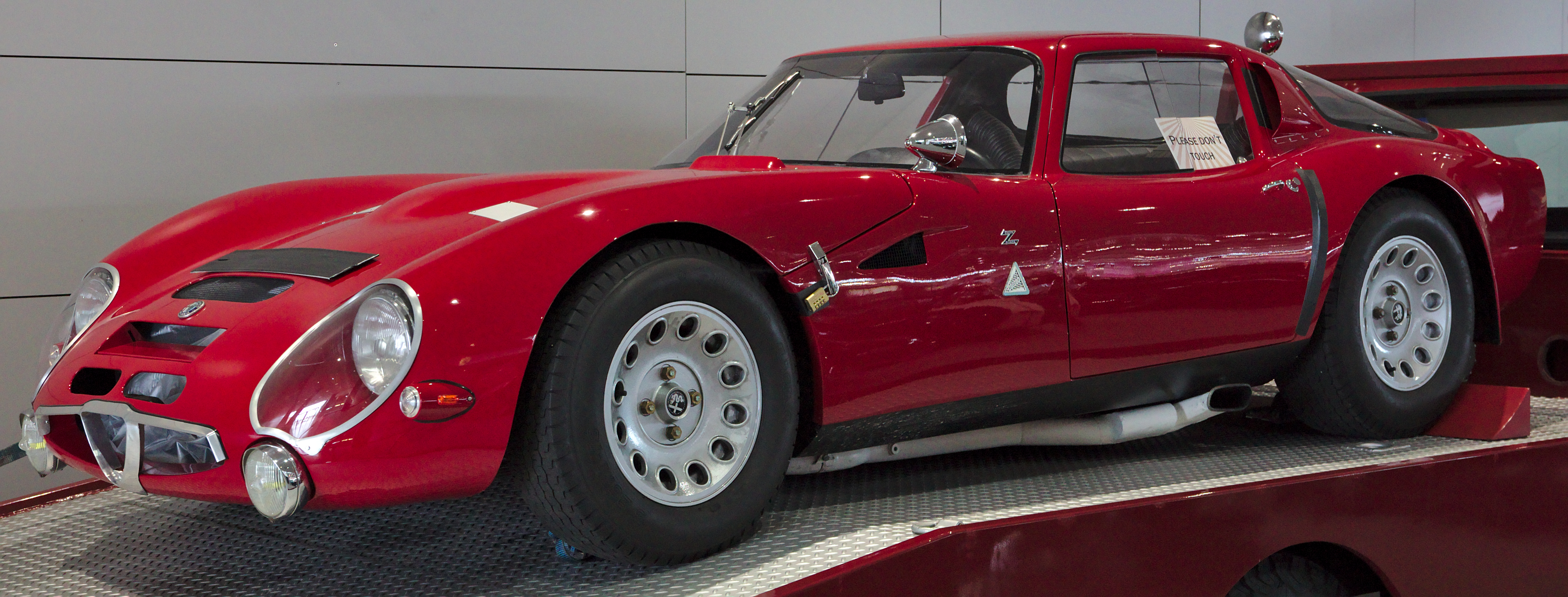 Alfa Romeo Giulia TZ2 at Retro Classics 2018